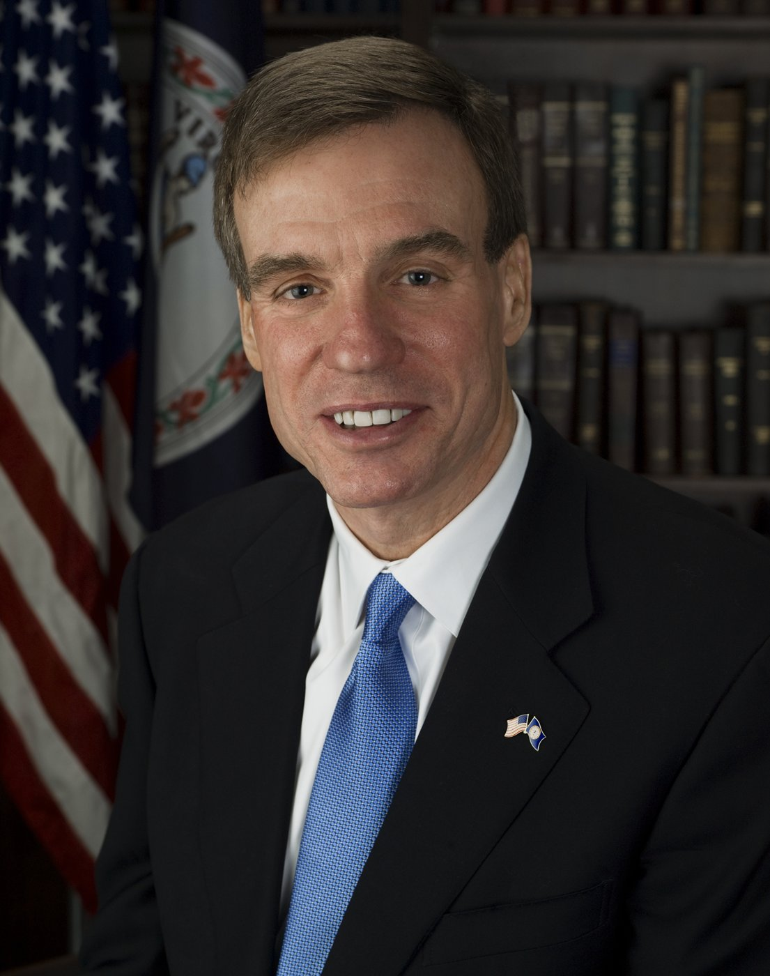 Mark Warner, member of the United States Senate from Virginia since 2009.